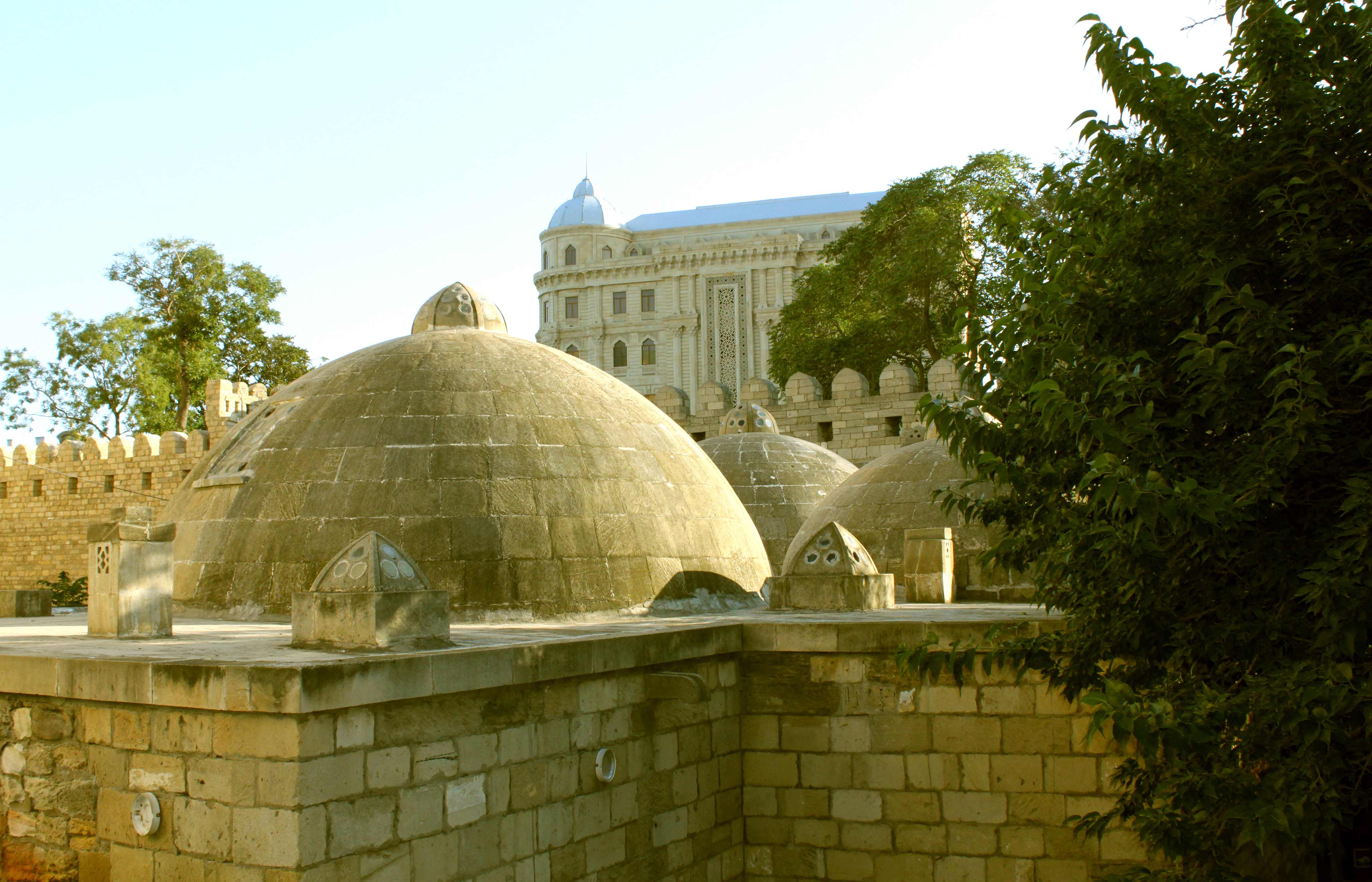 Qasimbey bath